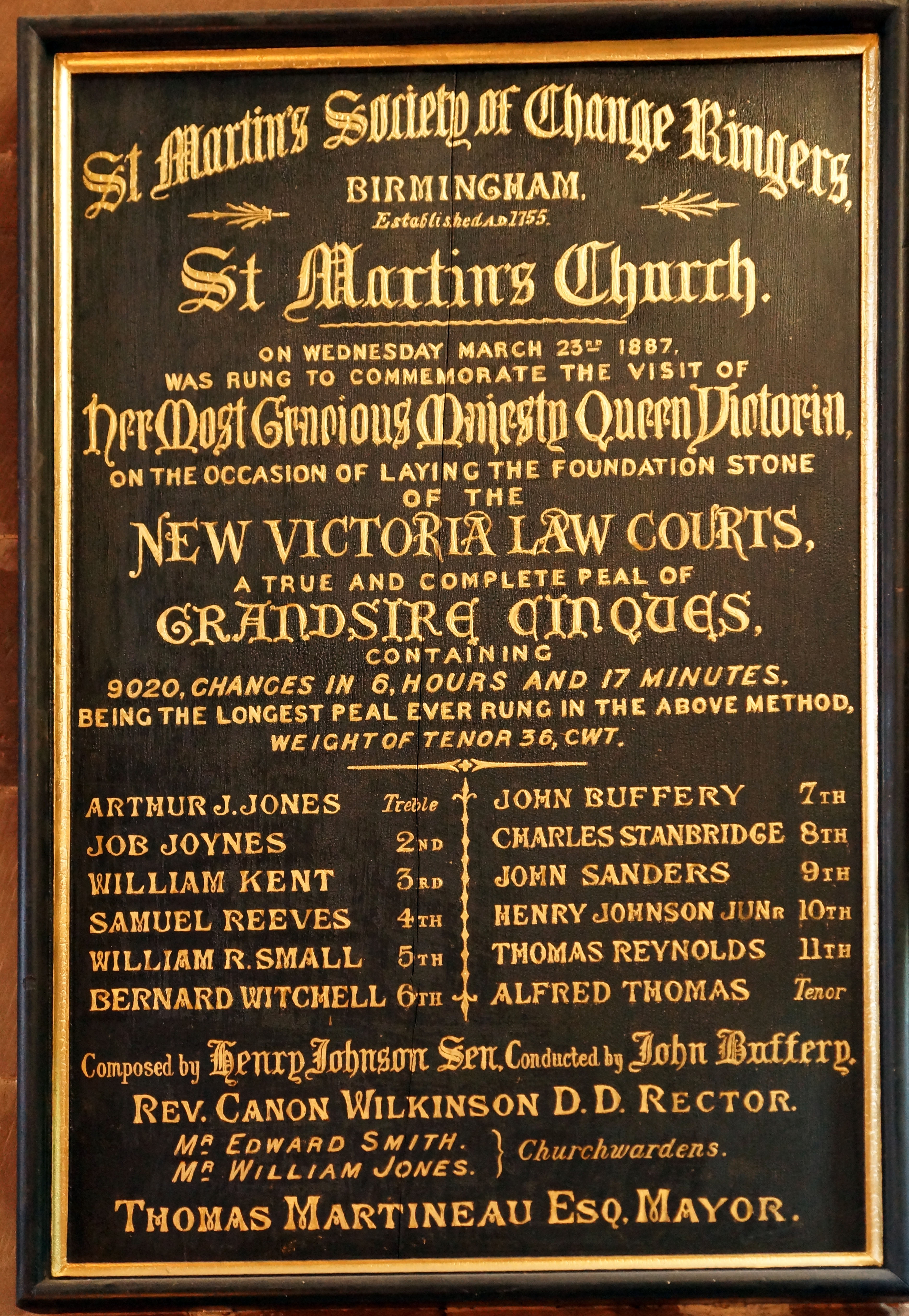 Peal board in church of St Martin in the Bull Ring, Birmingham, England. Colours, contrast and perspective modified in Photoshop.